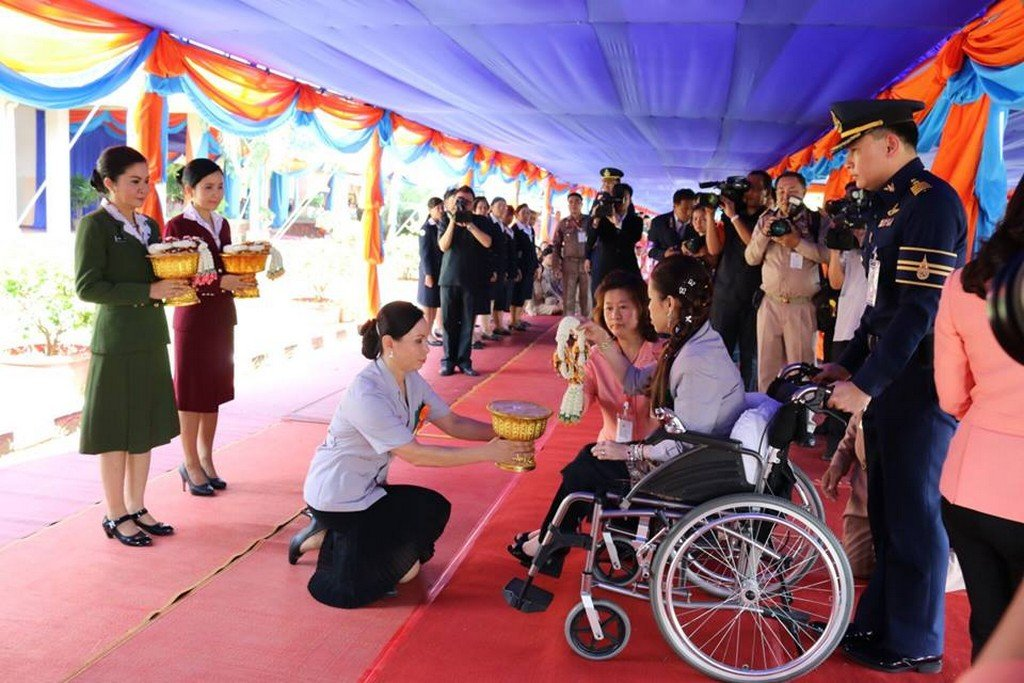 รับเสด็จสมเด็จพระเจ้าลูกเธอ เจ้าฟ้าจุฬาภรณวลัยลักษณ์ อัครราชกุมารี